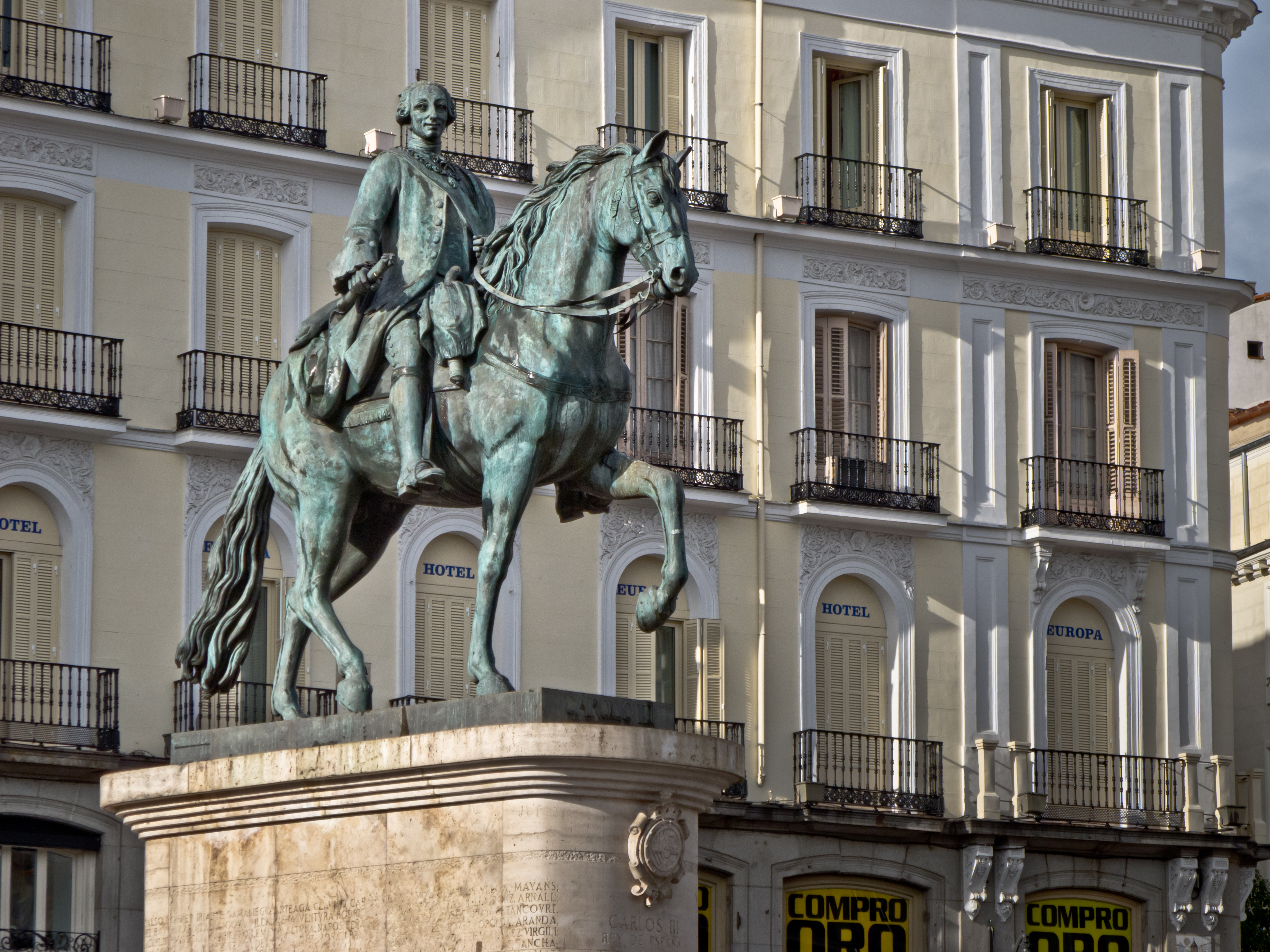 Statue of Charles III of Spain, Madrid, Spain.